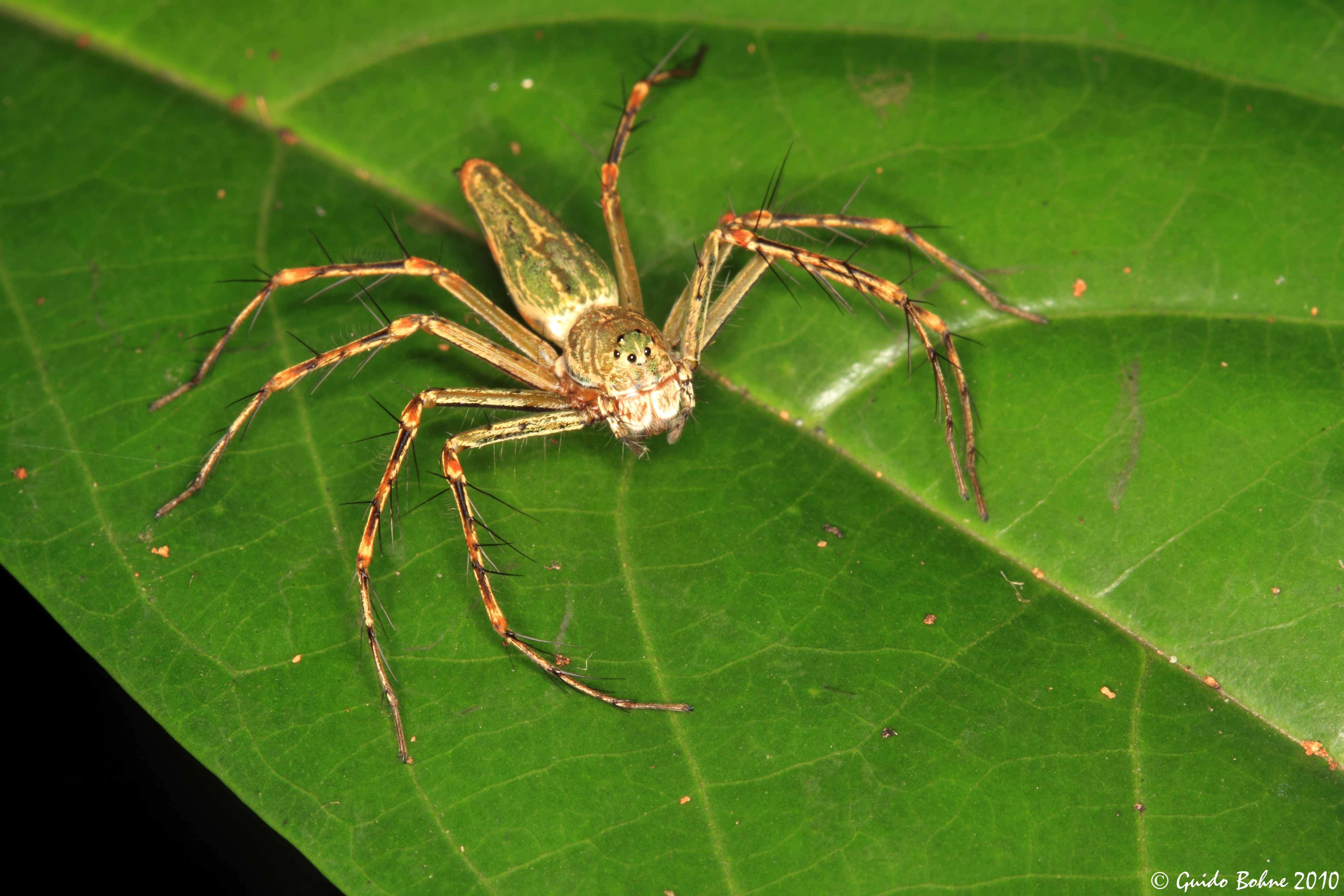 Family: Oxyopidae (Lynx spider, Luchs- oder Scharfaugenspinnen) Superfamily: Lycosoidea Order: Araneae Class: Arachnida Phylum: Arthropoda Indonesia, W-Java, Dungus Iwul, 12.10.2010 (IMG_5990)